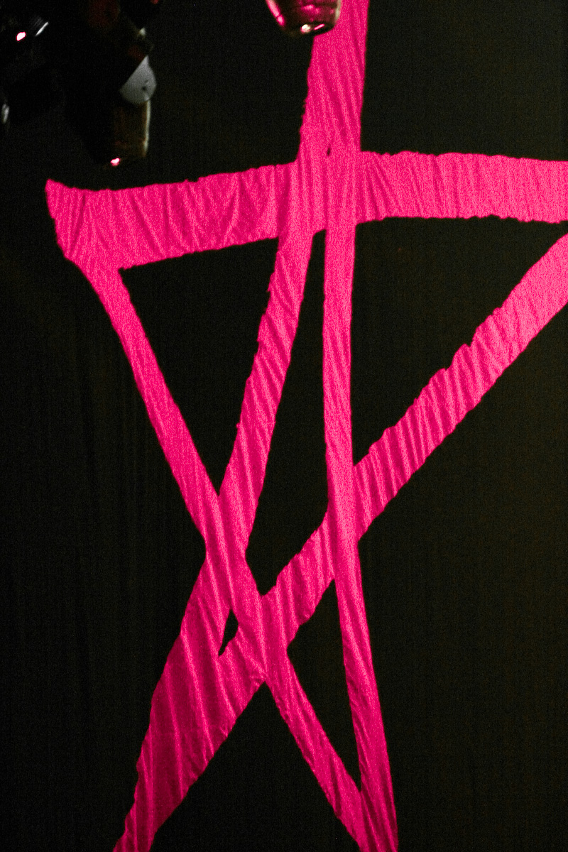 Best Damn Tour in 2008